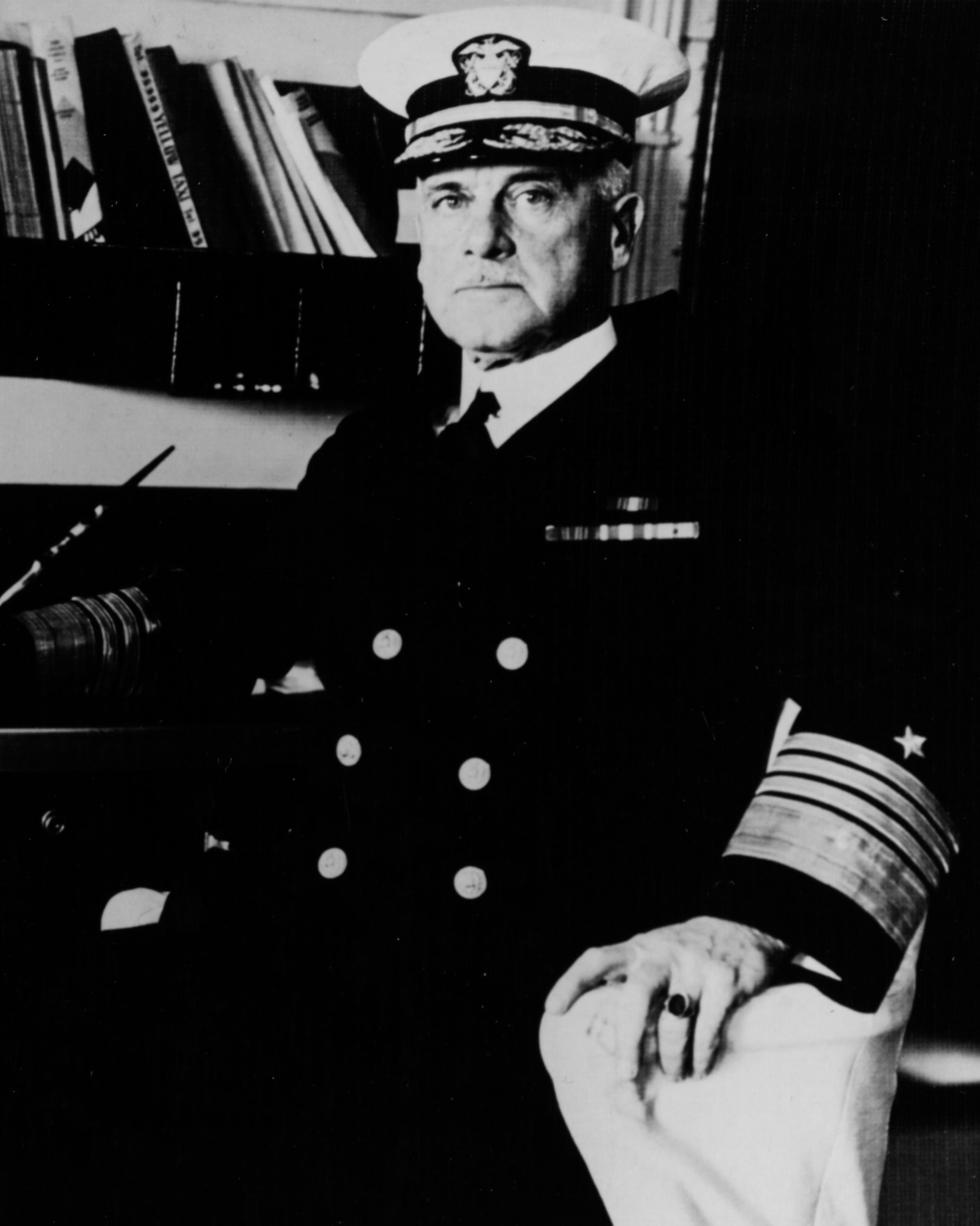 Adm. Charles B. McVay, Jr., Commander-in-Chief, U.S. Asiatic Fleet, at his desk on flagship USS Houston (CA-30).